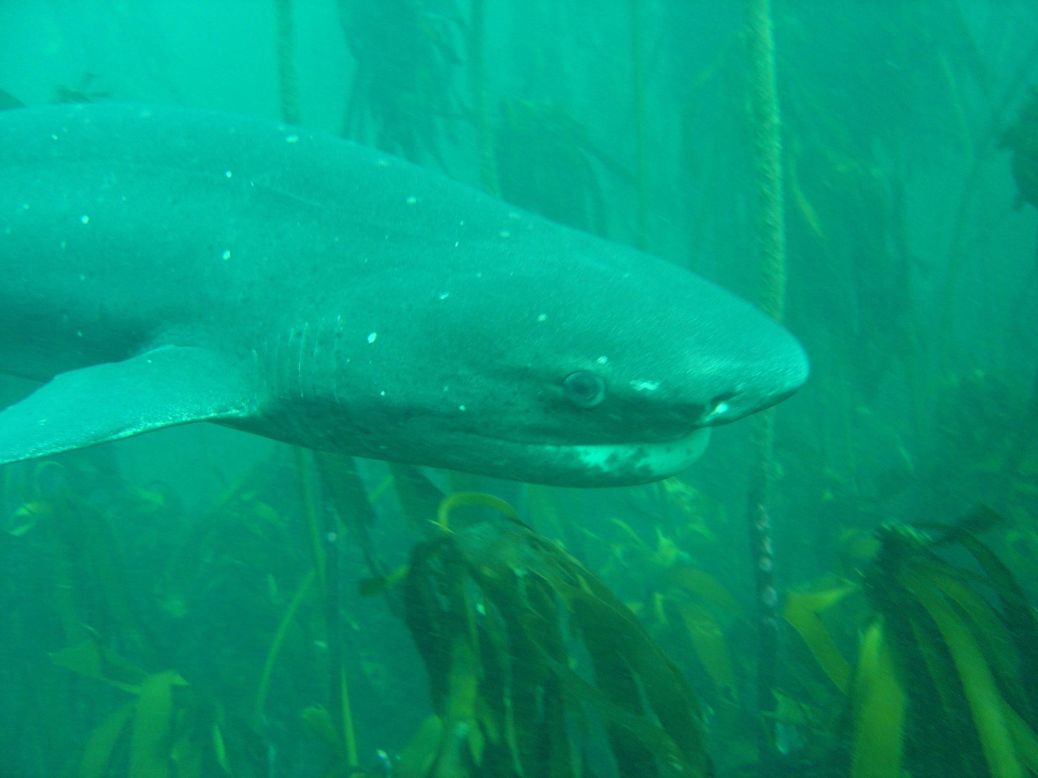 Cow shark Notorhynchus cepedianus seen from front right, showing absence of first dorsal fin., Castle Rocks, Cape Peninsula.